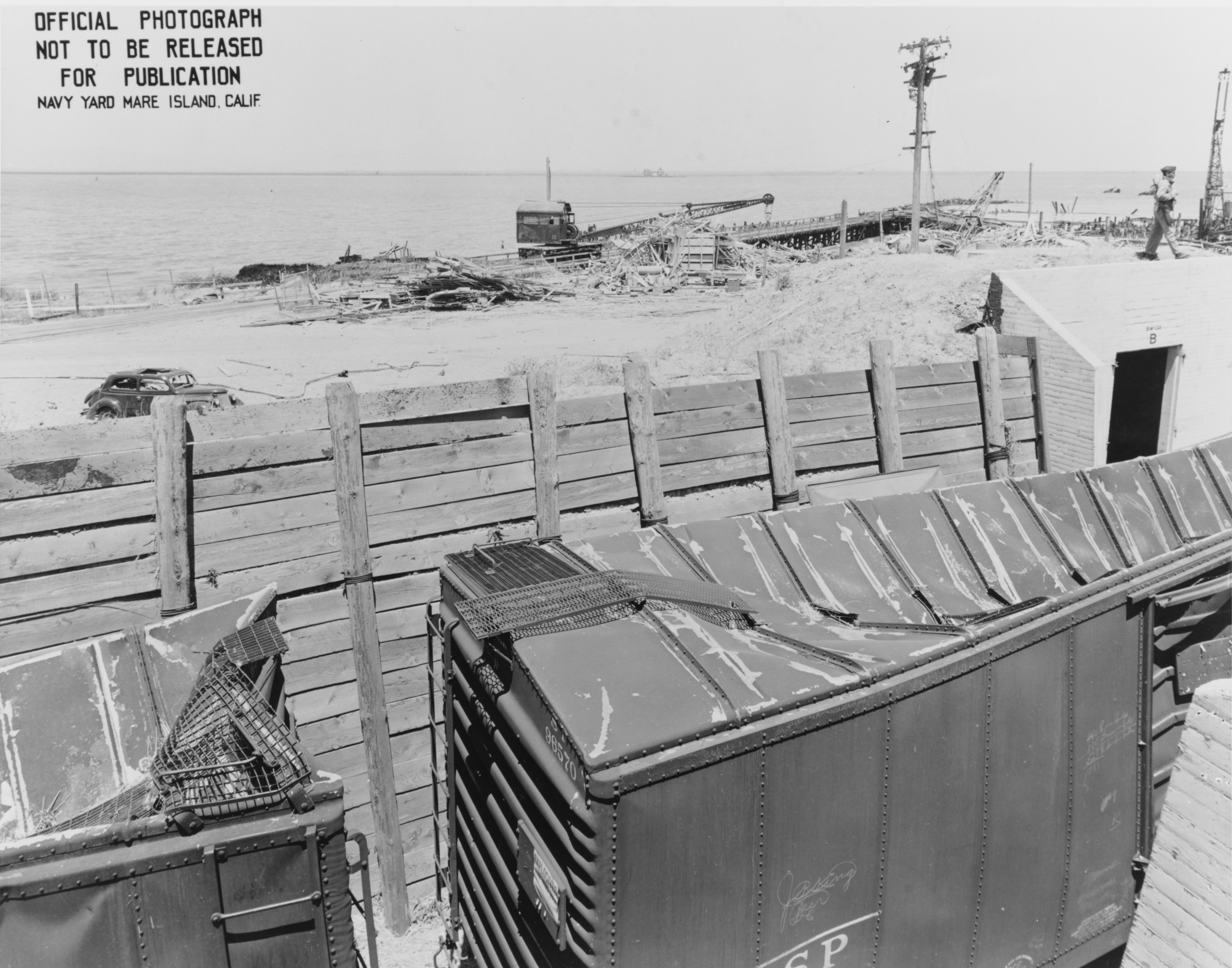 Photograph of boxcars within their revetment at Port Chicago Naval Magazine. A Marine sentry is patrolling. Boxcars are crushed from the shockwave of the disastrous explosion that occurred when an ammunition ship detonated on 17 July 1944.